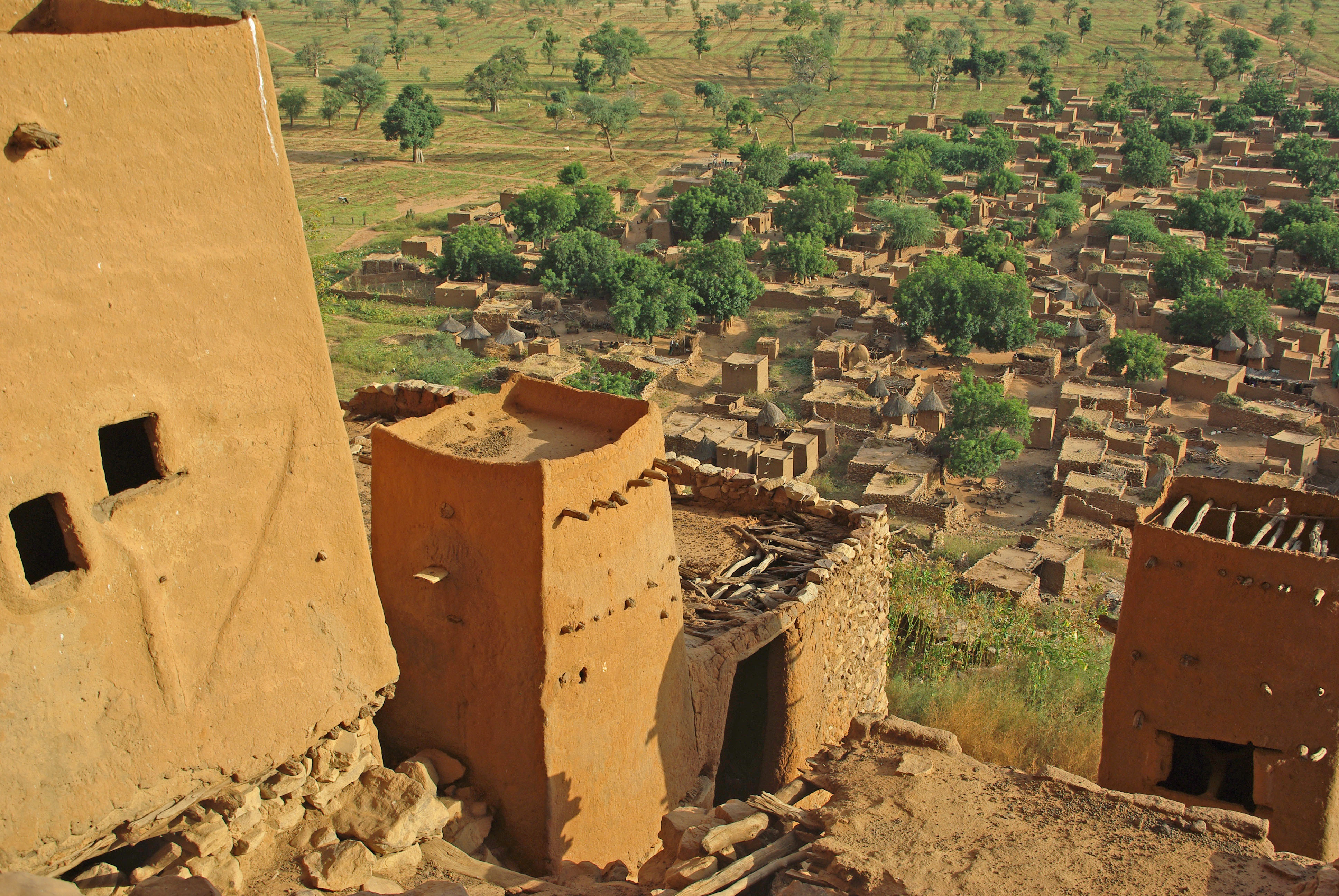 View on a Dogon village from an abandoned Tellem village in the Bandiagara escarpment, Sahel region, Mali.